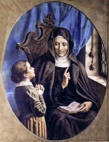 Saint Angela Merici (1474-1540) as a teacher, devotional picture (pastel on paper) by Pietro Calzavacca (1855-1890), Merician Museum, Brescia, Italy. [1]